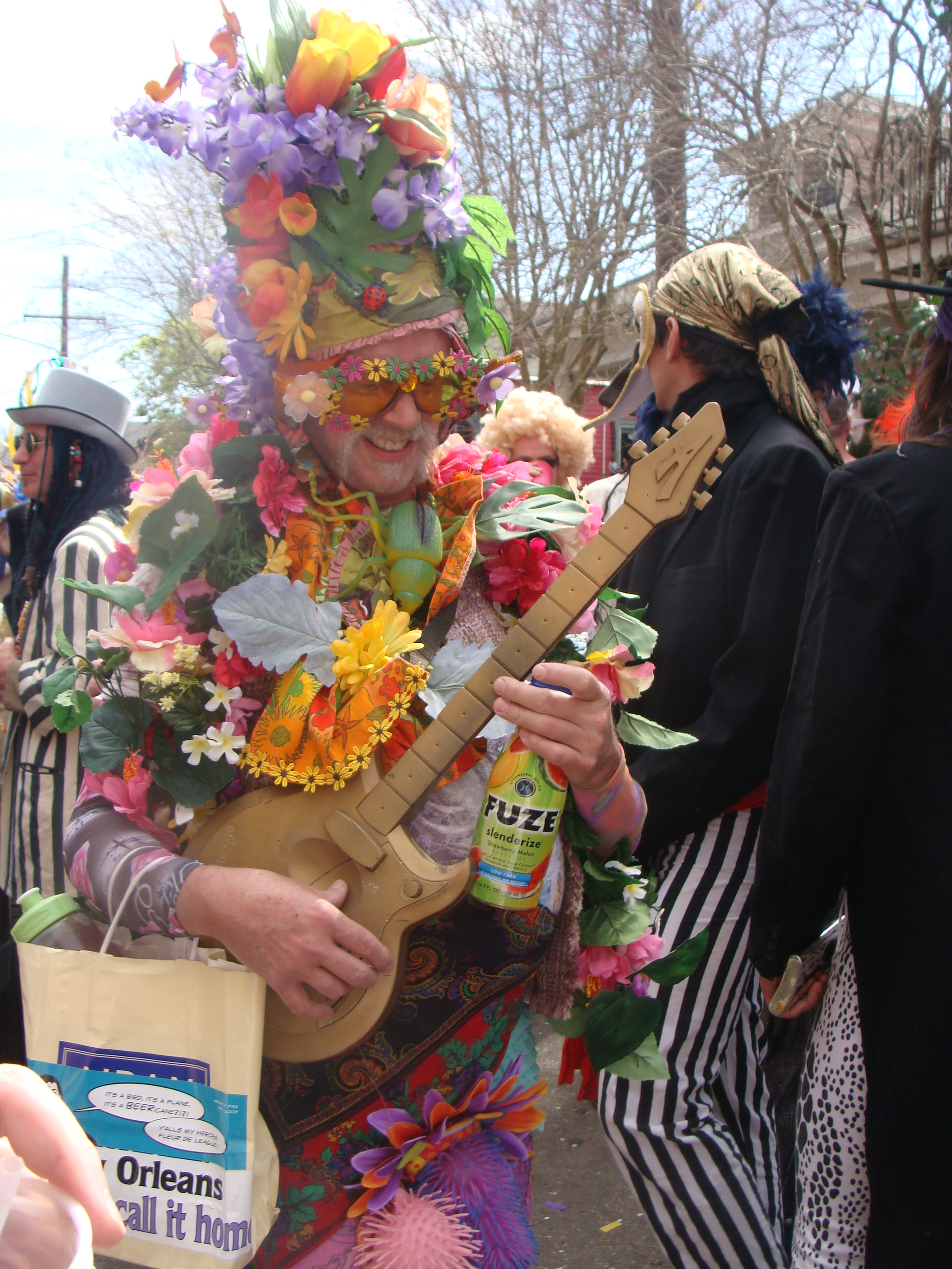 Mardi Gras in New Orleans